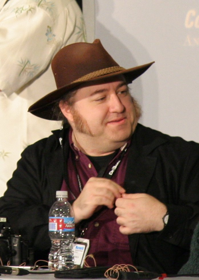 Andy Ihnatko at MacWorld 2008. This image was cropped from the original flickr image.